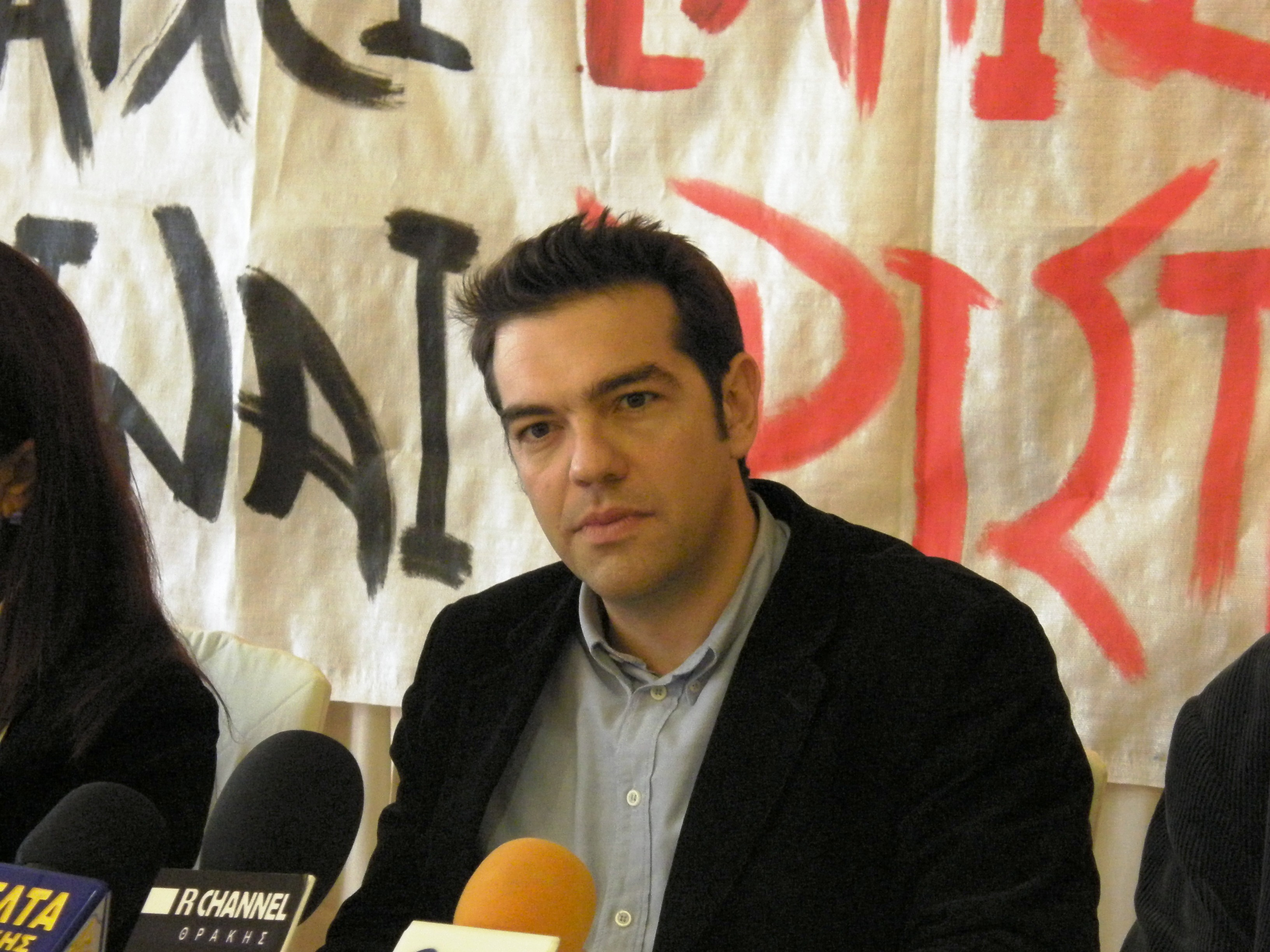 Alexis Tsipras in a press conference in Komotini.